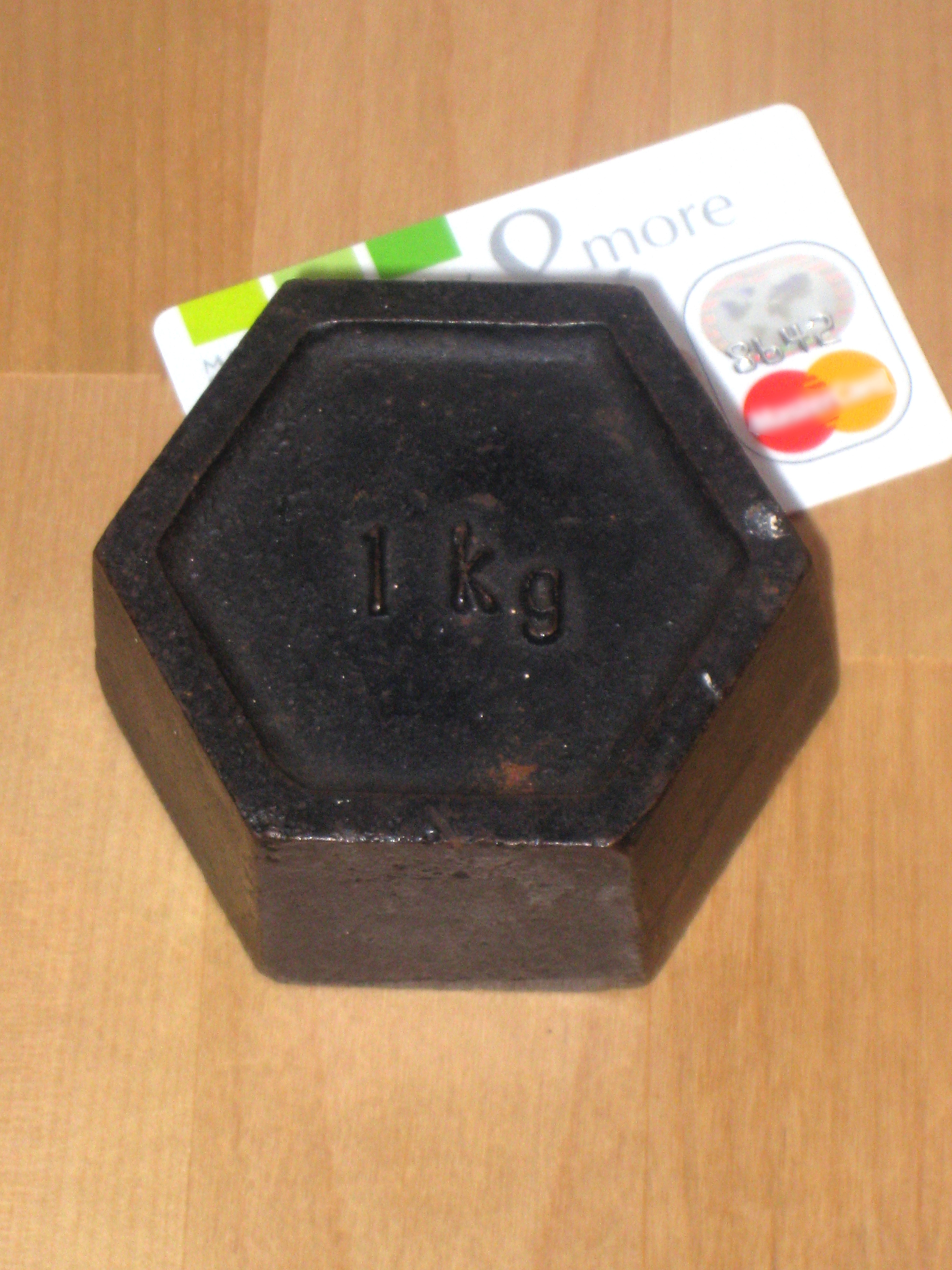 A 1 kg domestic quality weight alongside a "credit card"